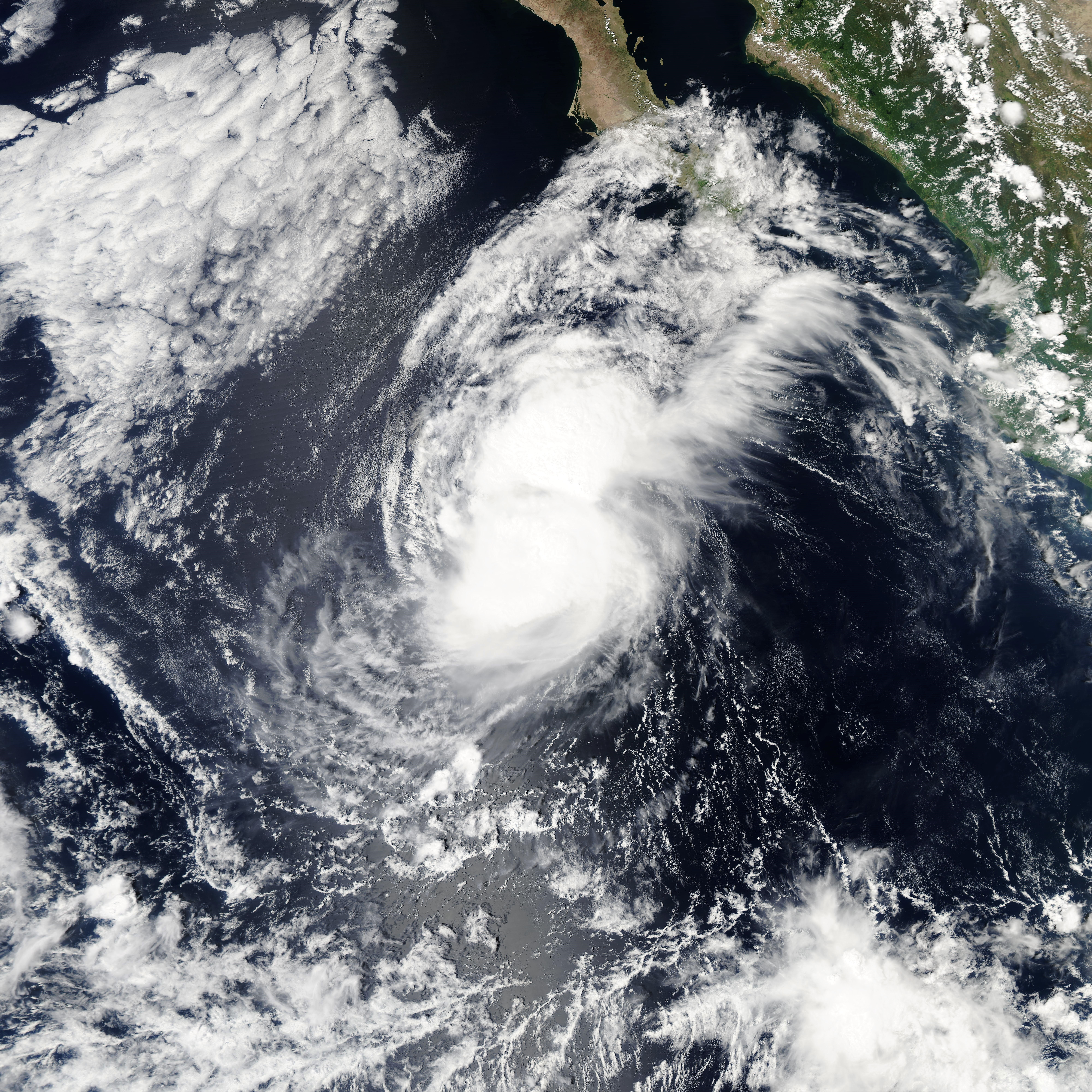 Hurricane Ivo as seen from the MODIS instrument aboard NASA's Aqua satellite on September 20 at 2055 UTC.